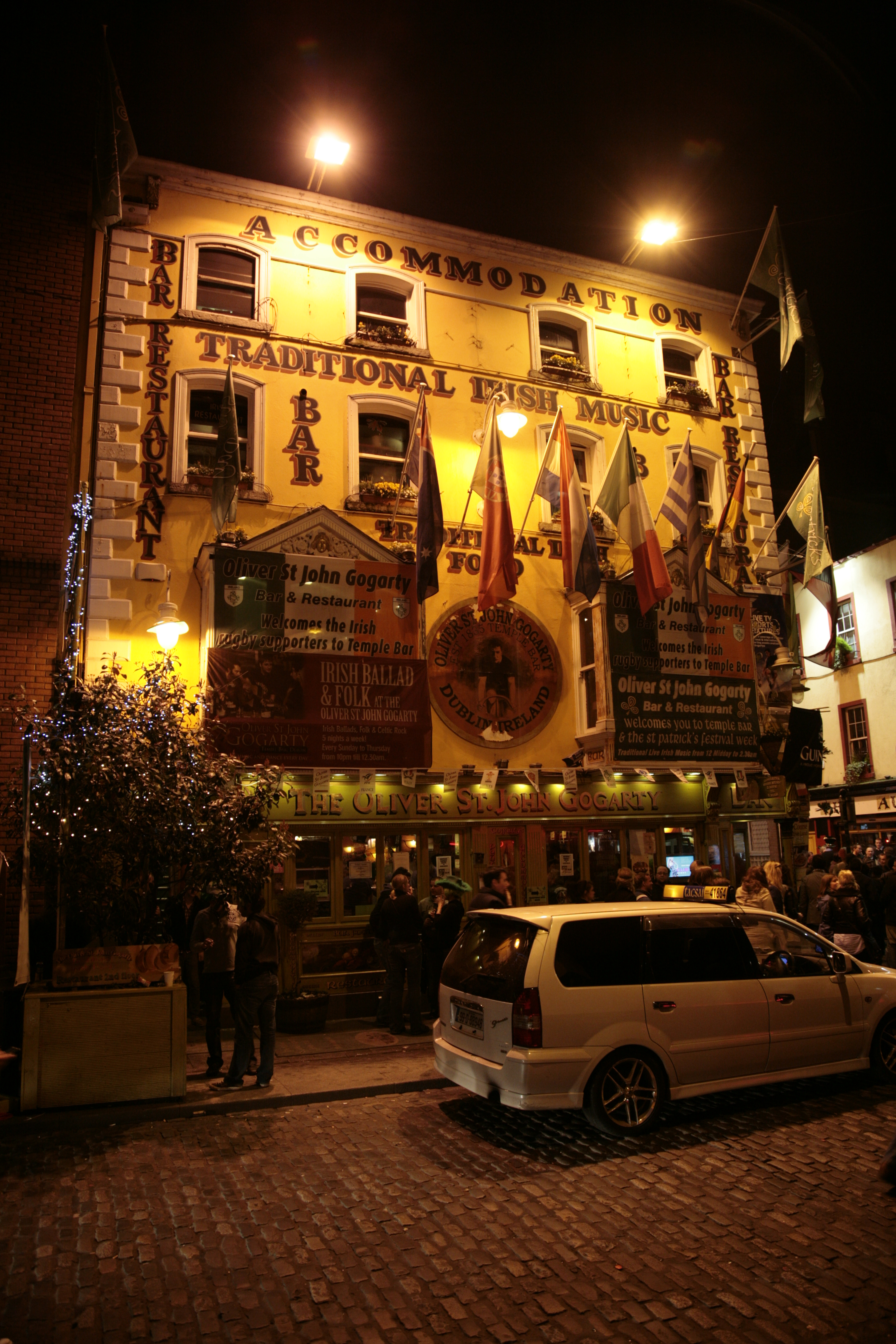 The Oliver St. John Gogarty Pub on Temple Bar at night, Dublin, Republic of Ireland